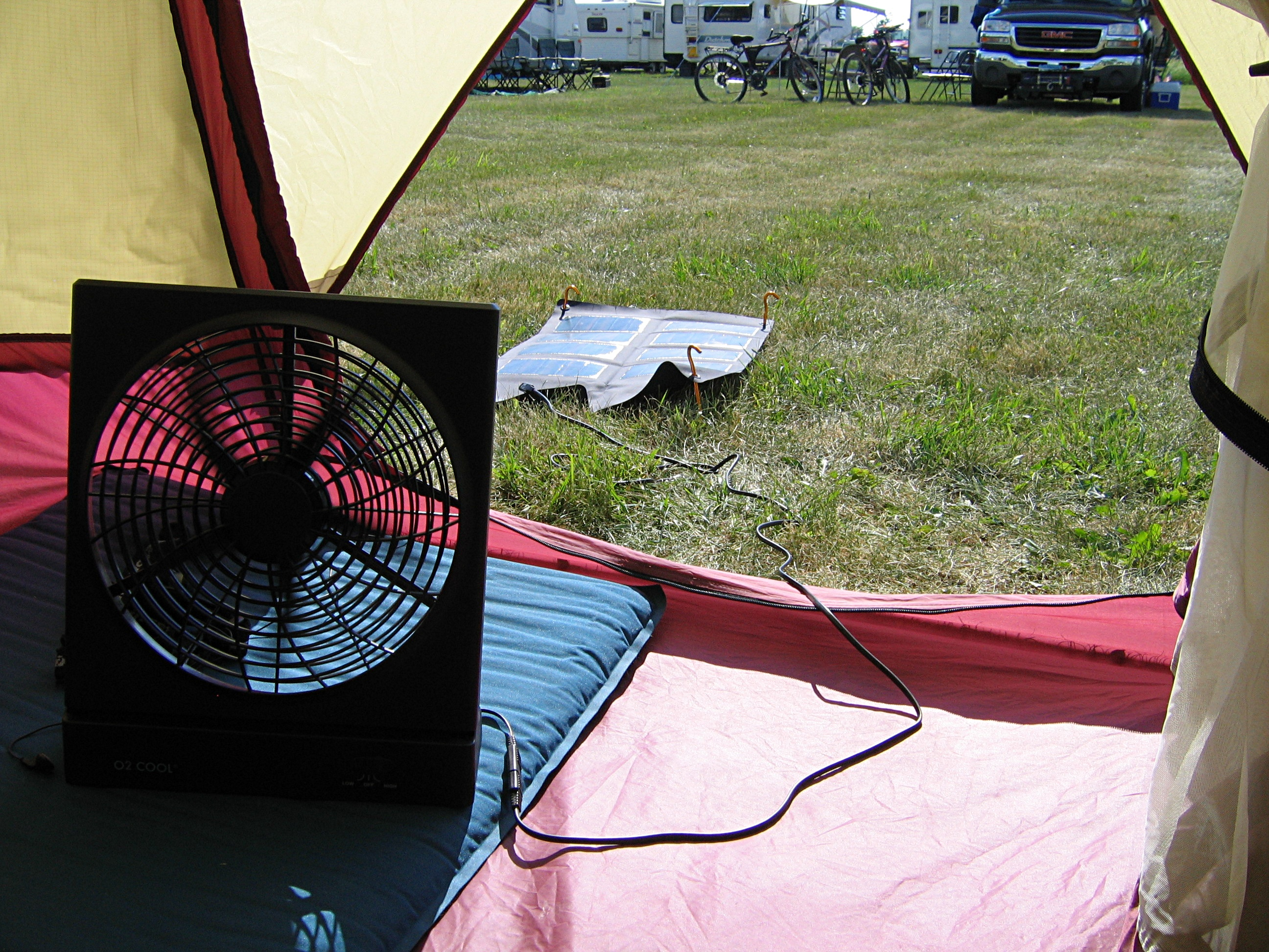 Solar powered fan. Very nice on a hot sunny afternoon.